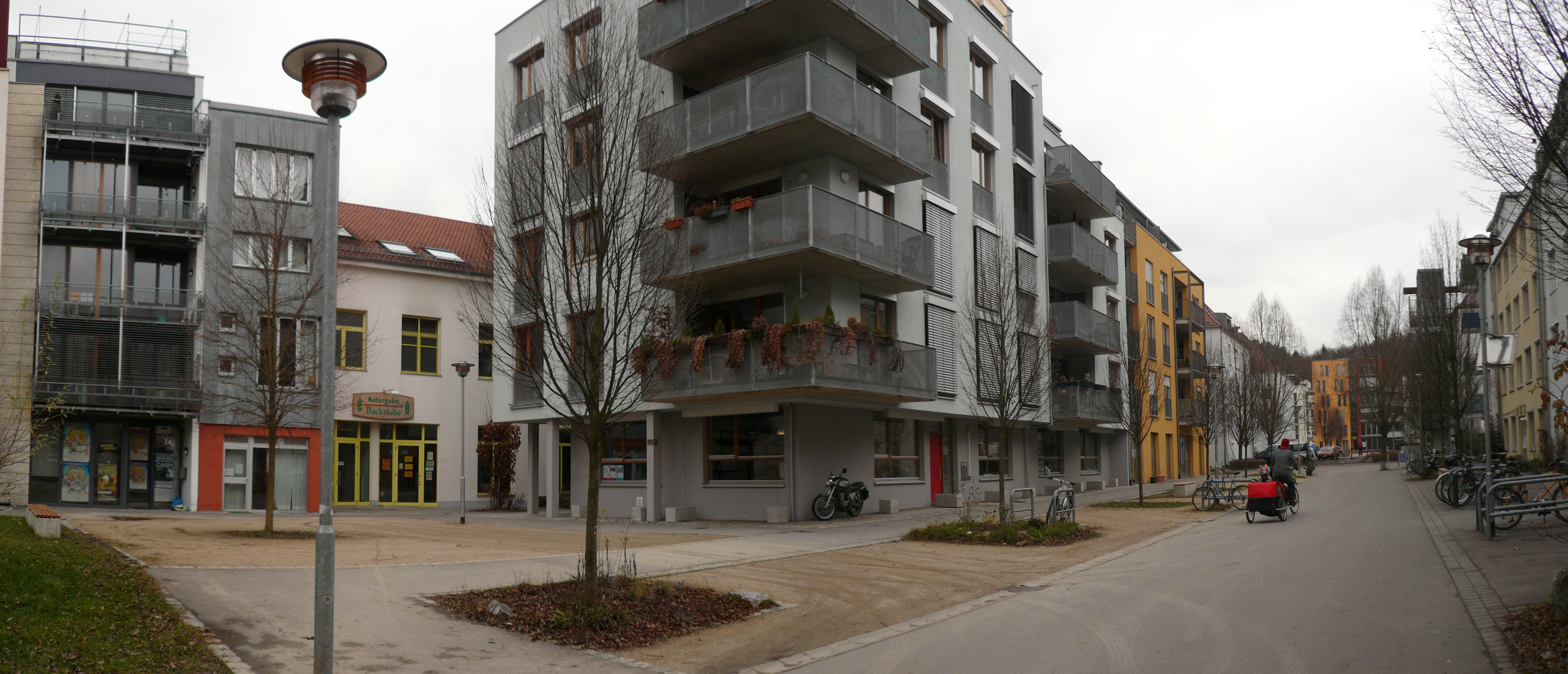 So-called French Quarter in Tuebingen